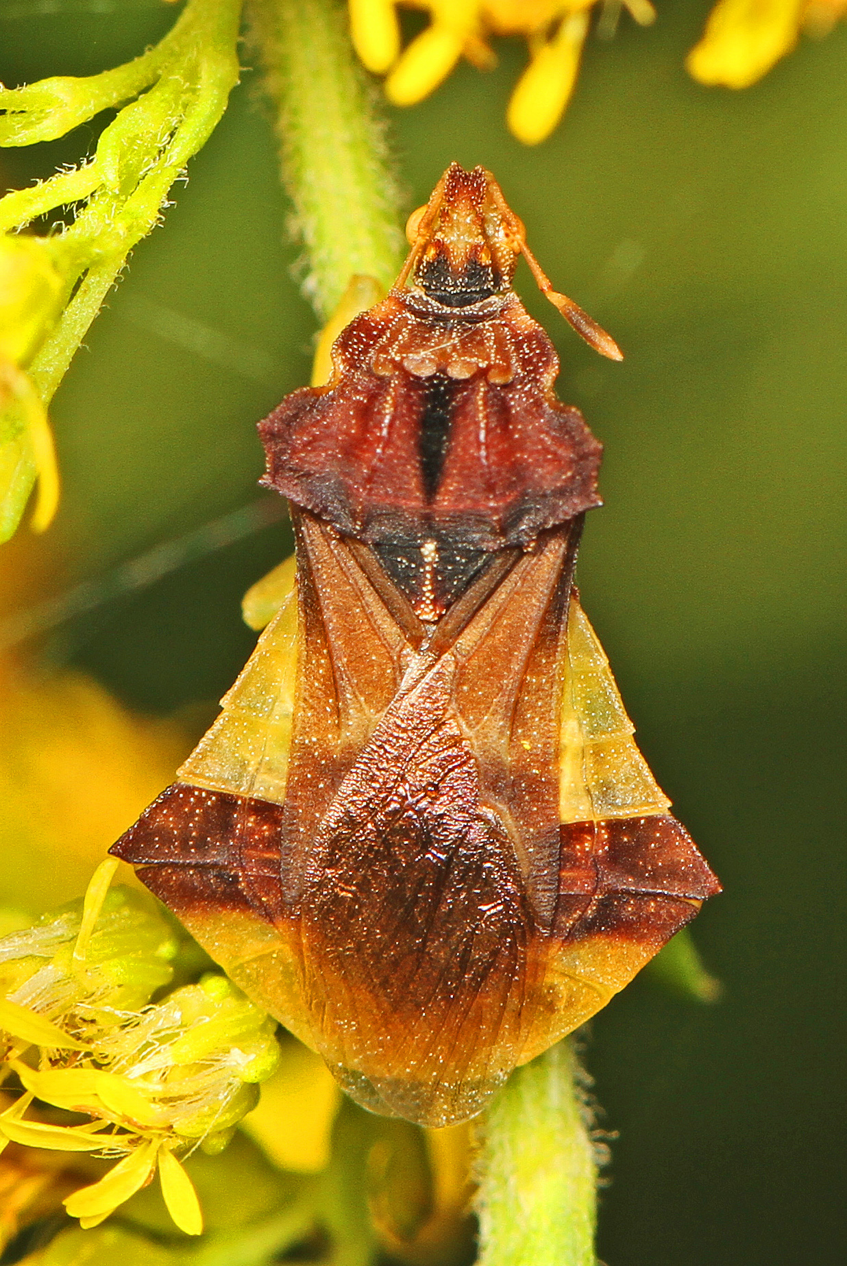 Pennsylvania Ambush Bug - Phymata pennsylvanica, Point Pelee National Park, Leamington, Ontario.